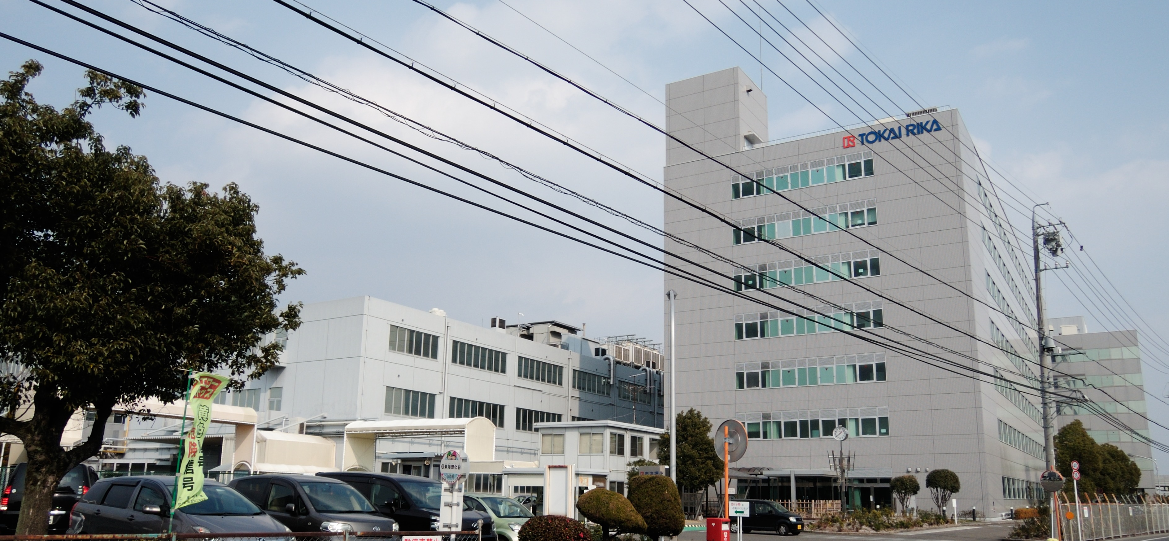 Headquarters of Tokai Rika Co., Ltd.,Aichi prefecture,Japan